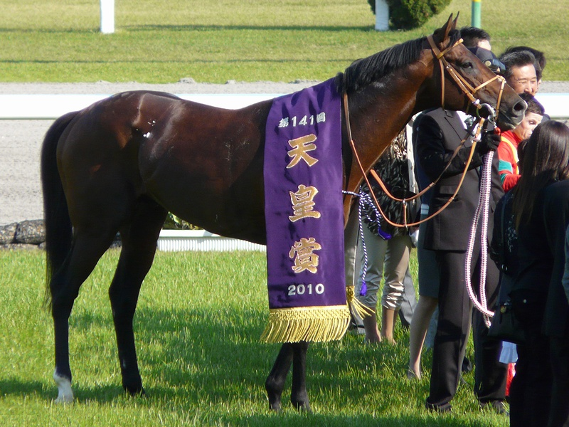 Jaguar Mail